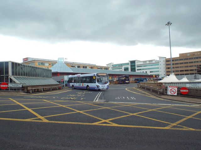 Bus leaving Bradford Interchange